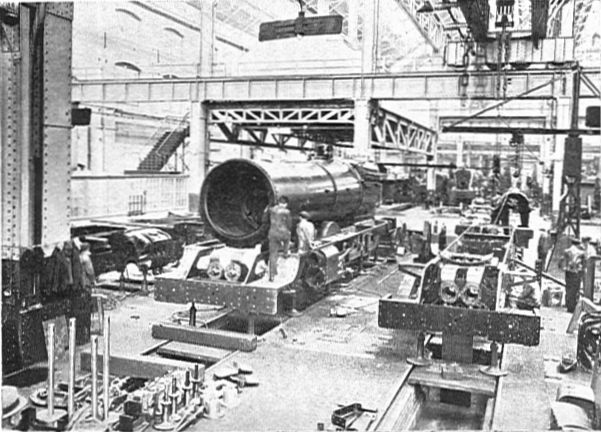 "Kings" under Construction at Swindon Photo: GWR